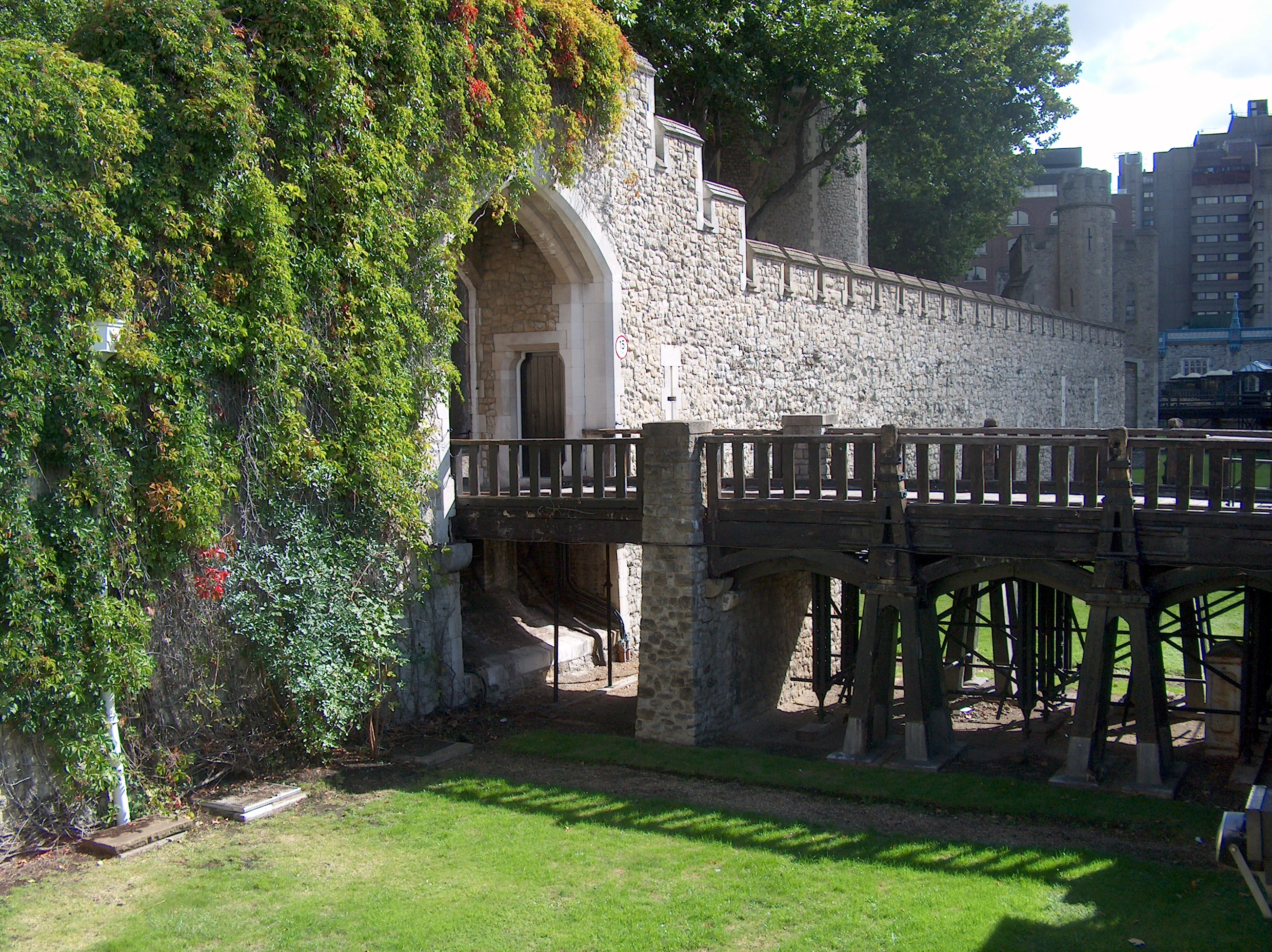 Tower of London Moat